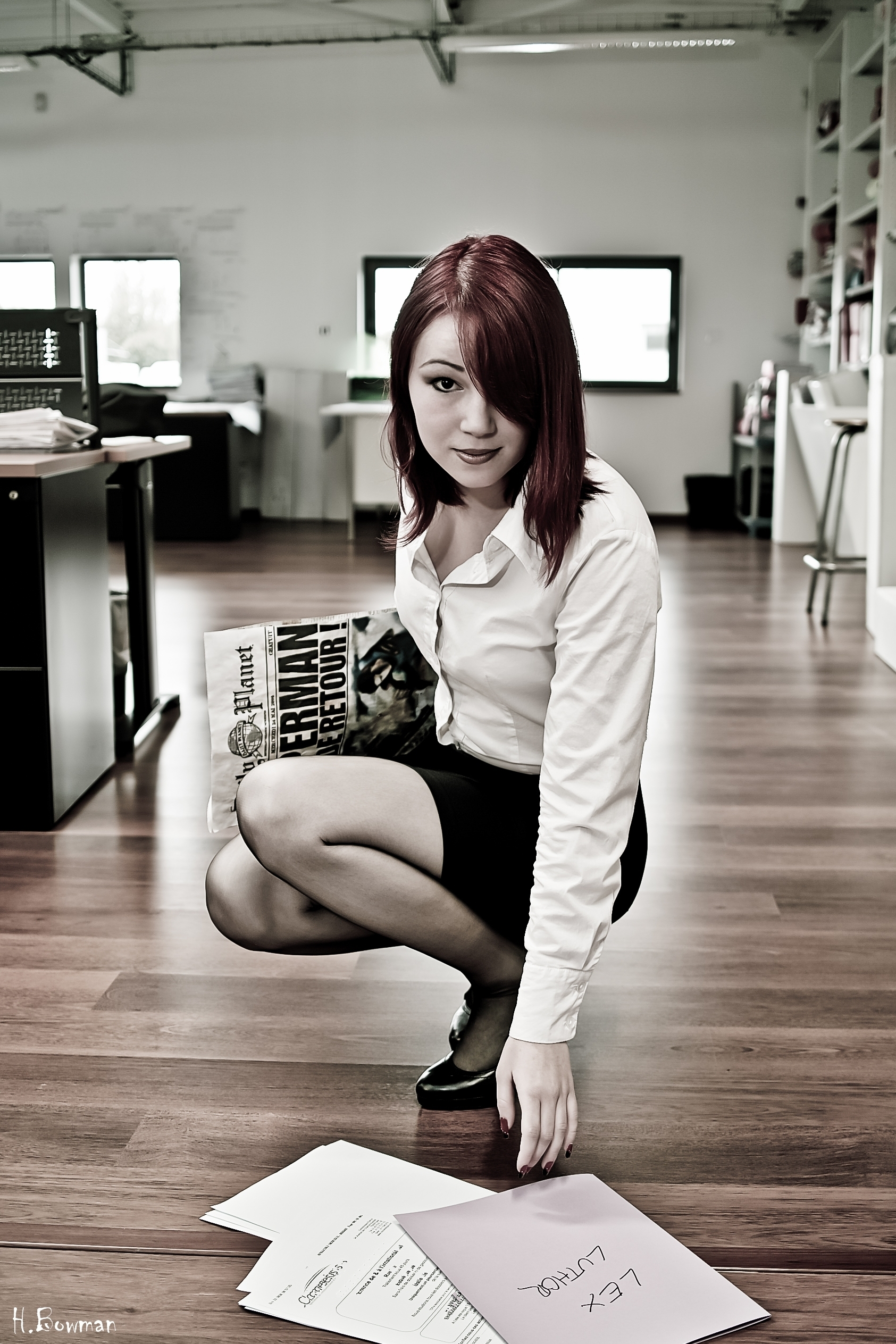 Photo of Lois Lane